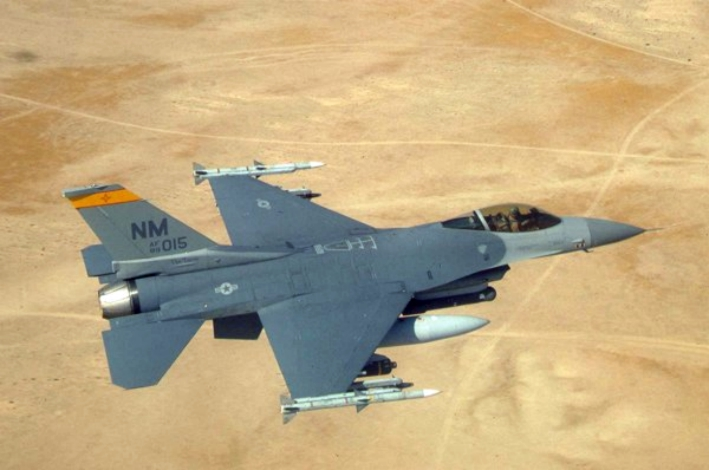 A U.S. Air Force General Dynamics F-16C Block 40D Fighting Falcon fighter (s/n 88-0515) from the 188th Expeditionary Fighter Squadron, New Mexico Air National Guard flying over the Middle East Desert, 1998 as part of Operation Southern Watch.